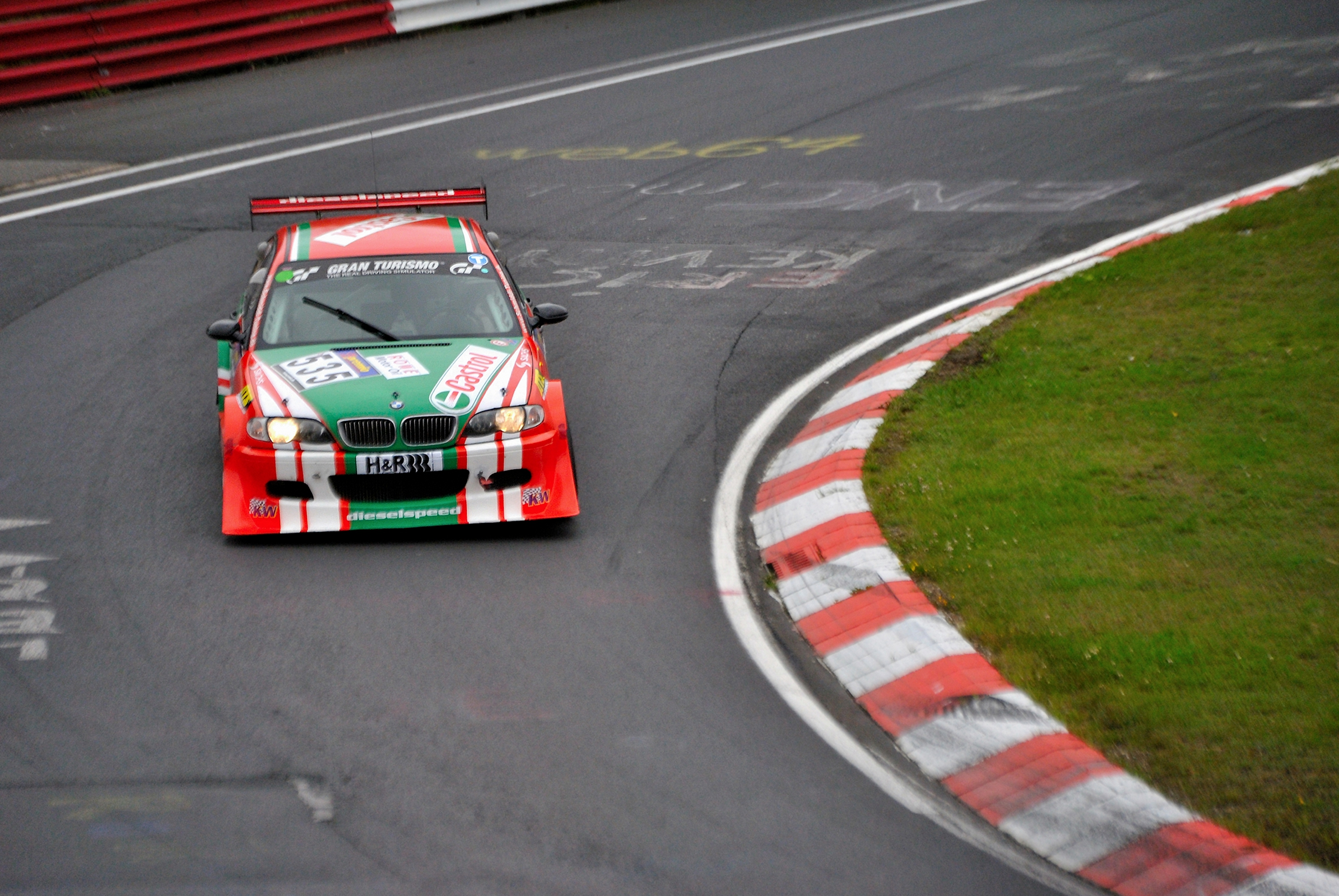 Nürburgring (Eifel, Rhineland-Palatinate, Germany) – VLN long distance championship 2011 – 34. RCM DMV Grenzlandrennen race – Nordschleife, section Nordkehre – BMW 335d GTRThis photograph was taken with a Nikon D3000